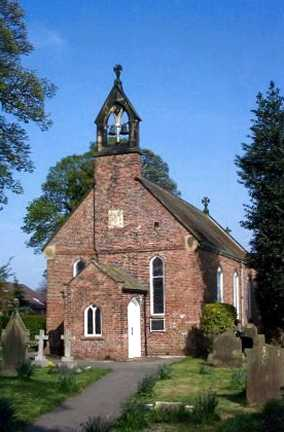 St David's Church, Airmyn, East Riding of Yorkshire, England